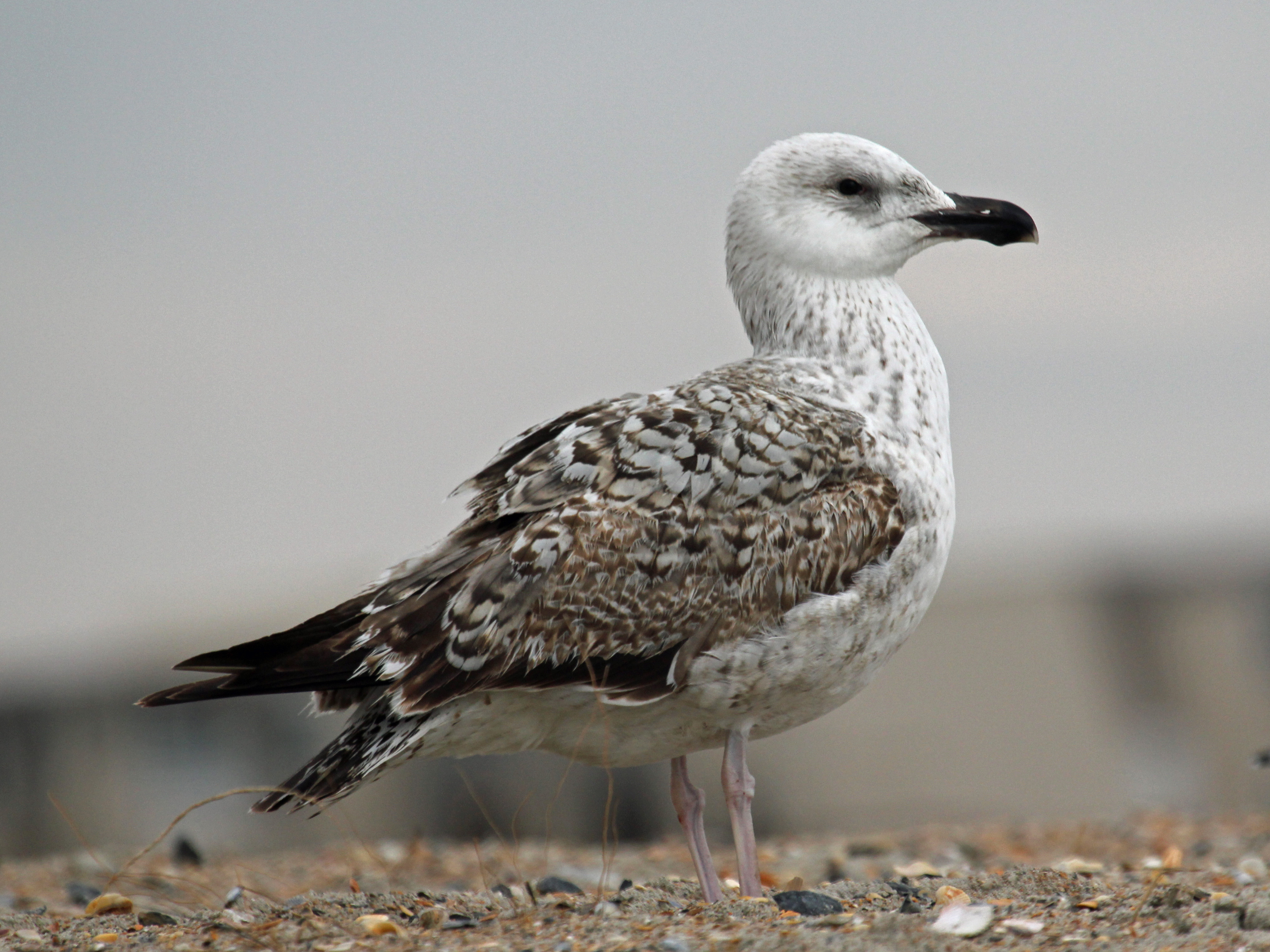 Juvenile Great Black-backed Gull (Larus marinus) - Atlantic Beach, North Carolina